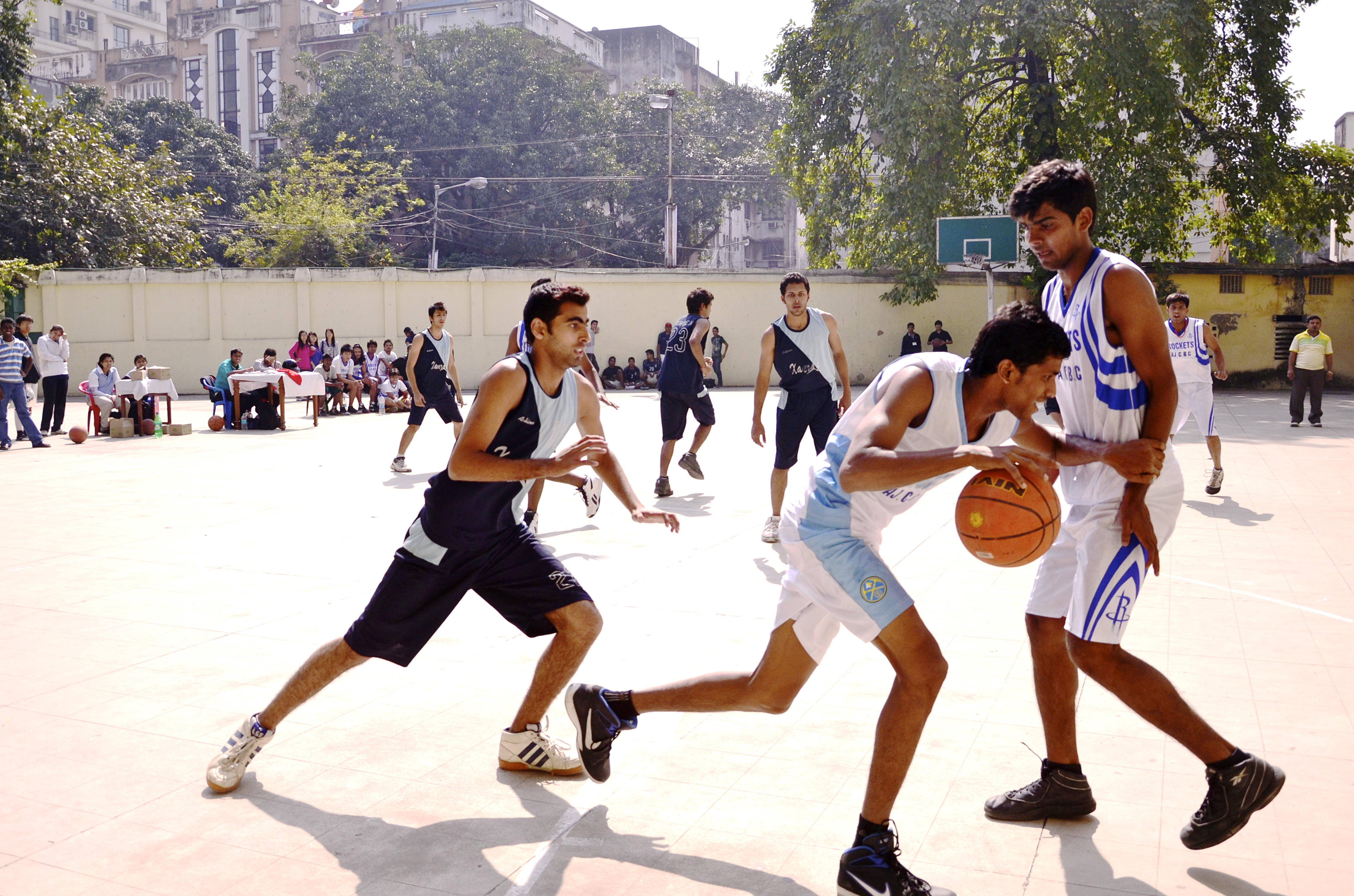 basket ball at st.xaviers college